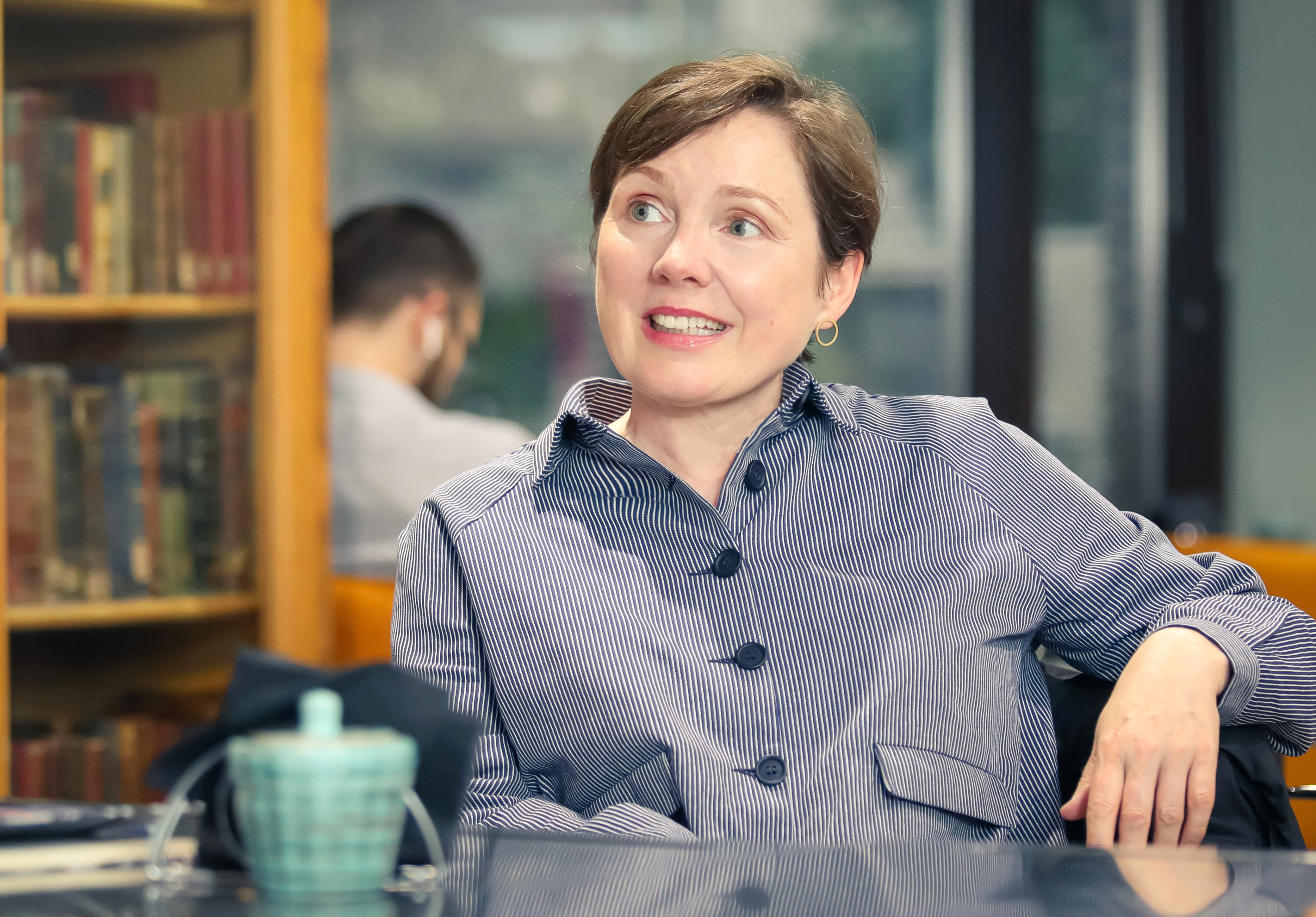 Lavinia Greenlaw is an English poet and novelist. Meeting with writers from the UK in All-Russia State Library for Foreign Literature.